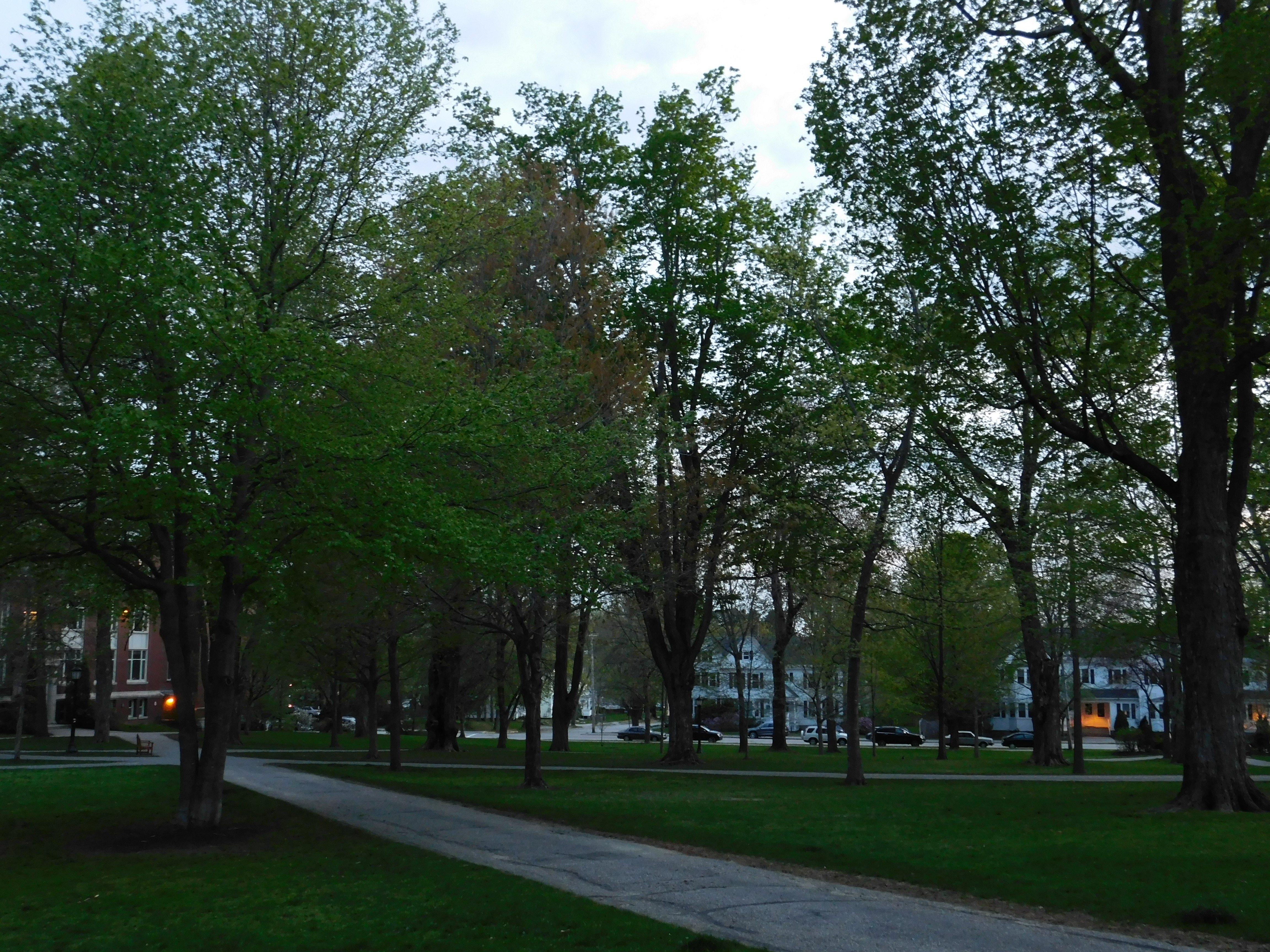 Greenery on the historic quad of Bates College